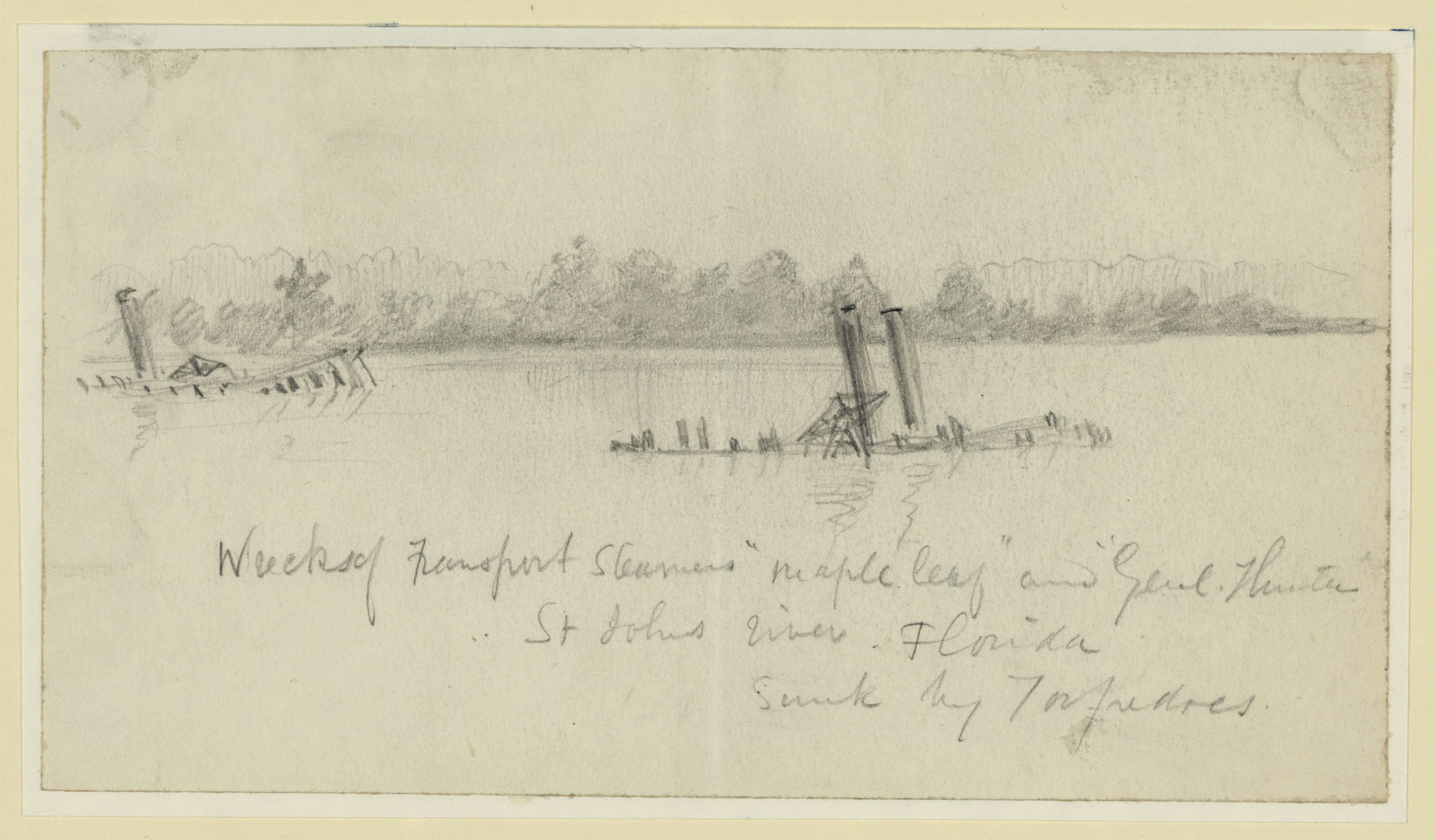 Title: Wreck of Transport Steamers "Maple leaf" and "Genl. Hunter".[1] St. Johns river. Florida, Sunk by torpedoes Abstract/medium: 1 drawing on white paper : pencil ; 11.2 x 20.1 cm (sheet)